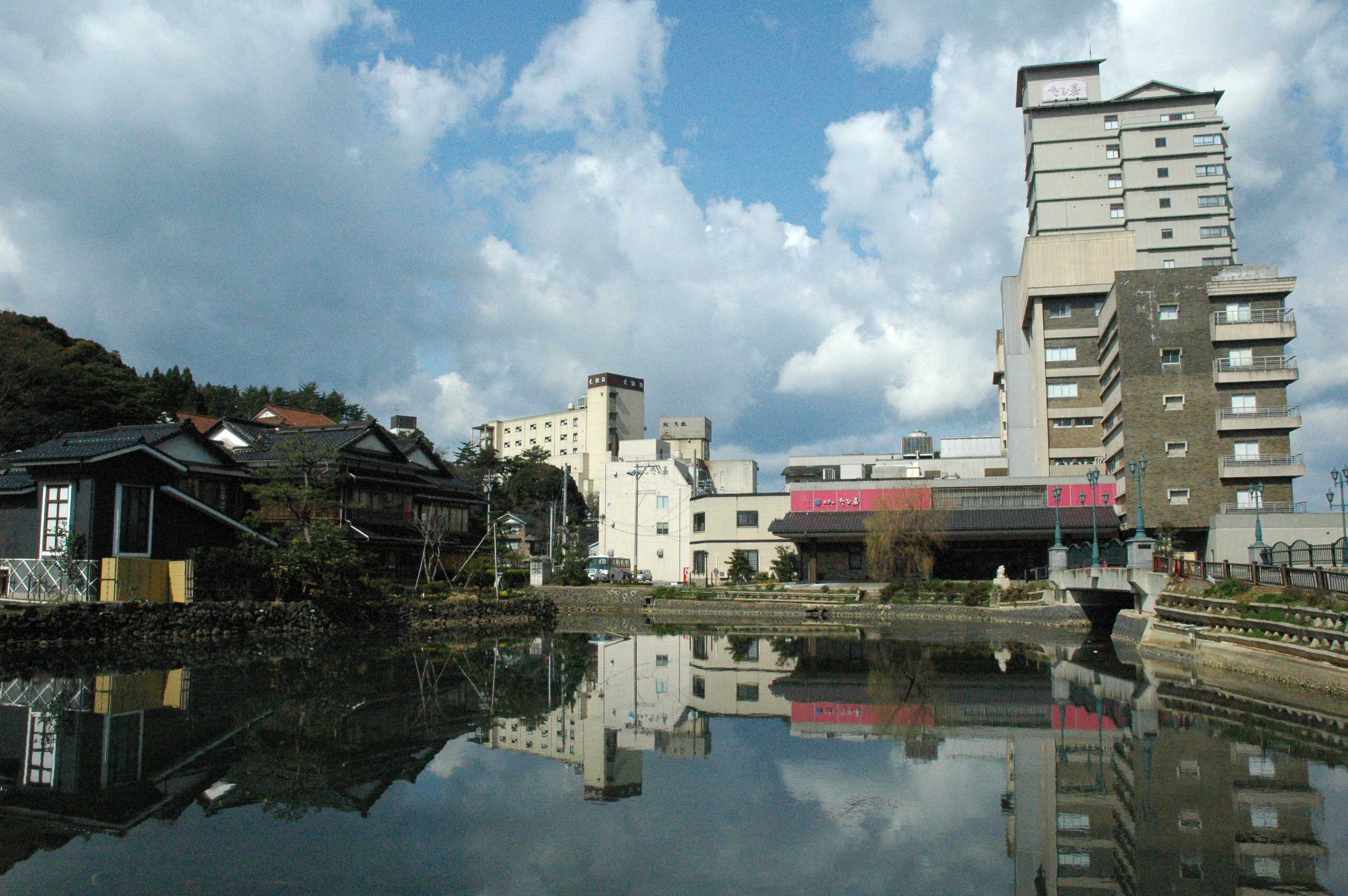 Overview of Wakura Onsen.